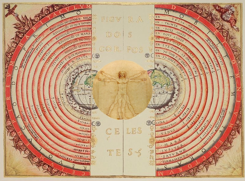 Solipses image combined from Wikicommons images, Bartolomeu Velho 1568.jpg & Da Vinci Vitruve Luc Viatour.jpg